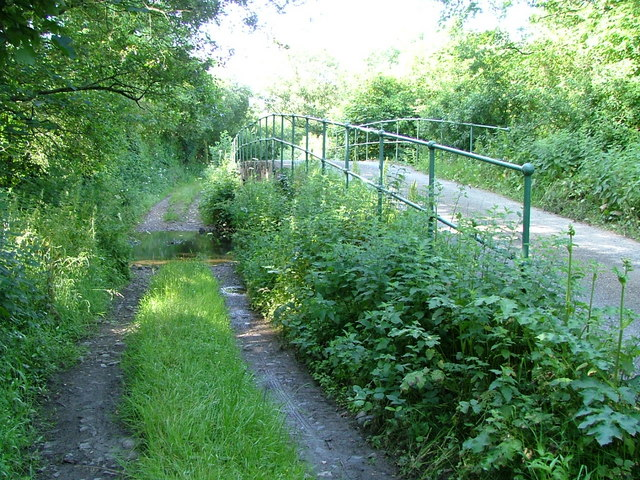 Trengune, in the Cornish civil parish of Warbstow. A bridge and ford, both used, crossing the River Ottery